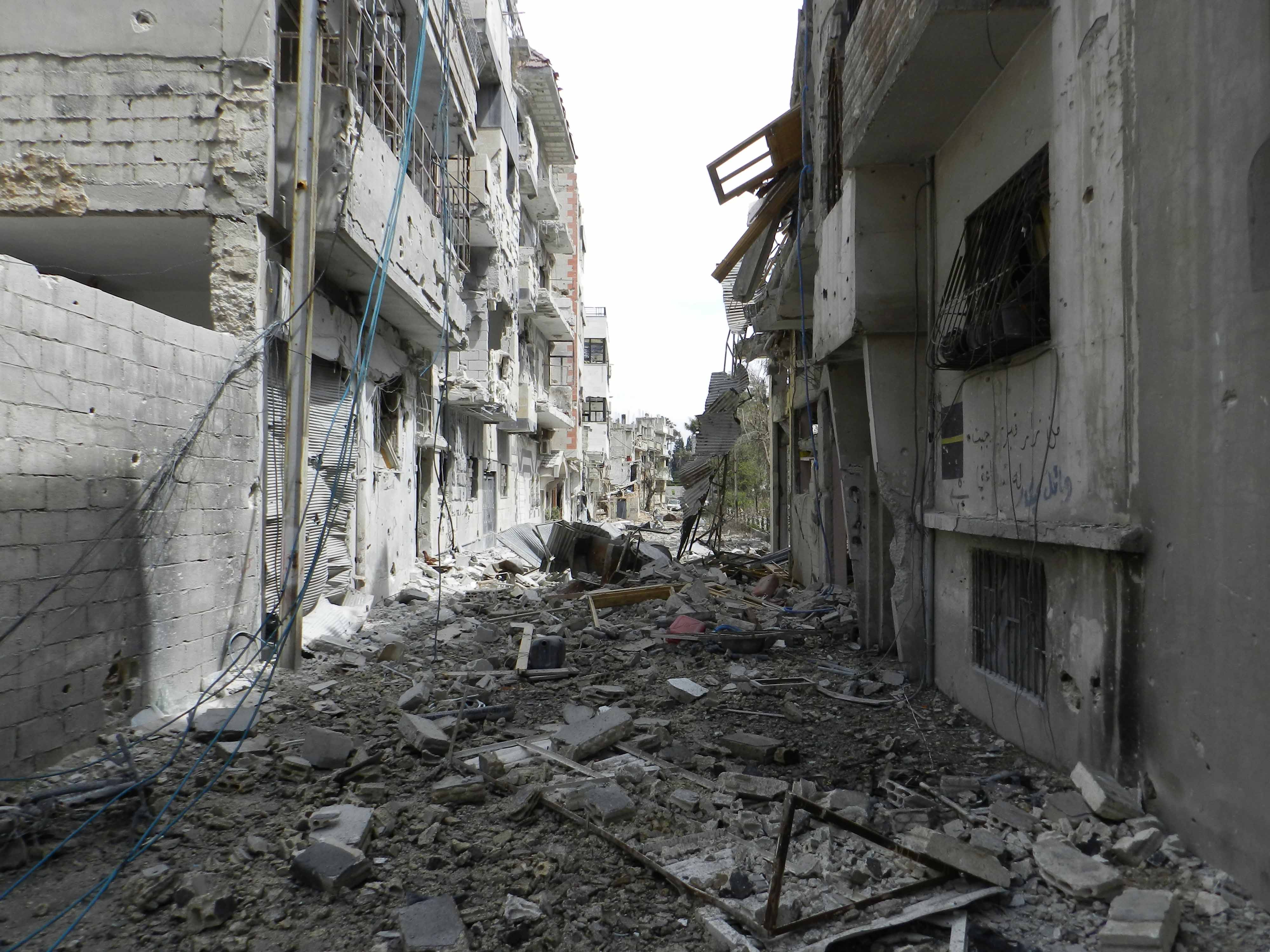 Destruction in Bab Dreeb area in Homs, Syria